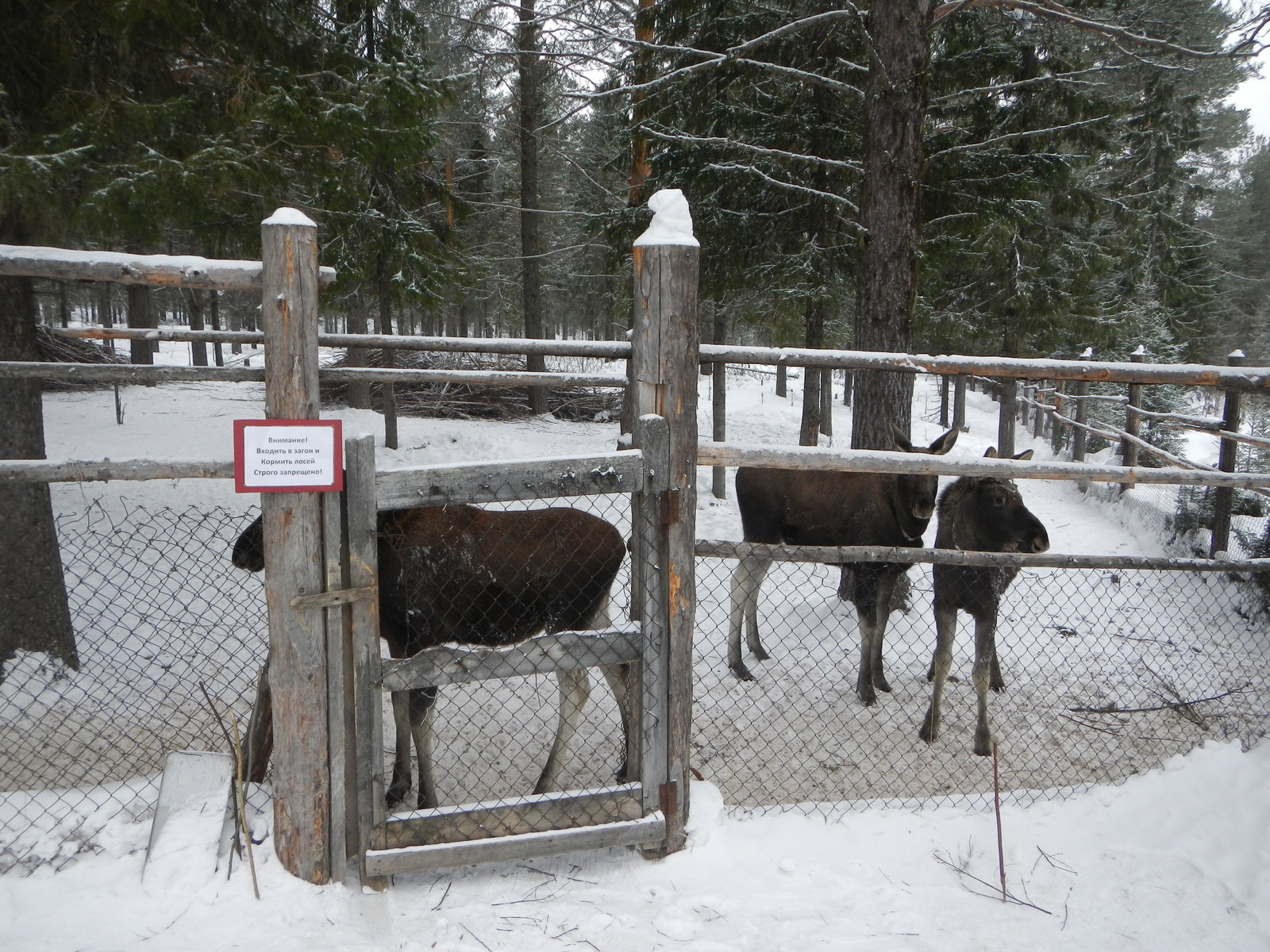 A few moose kept in a fence at moose domestication project in Pechora-Ilytsh